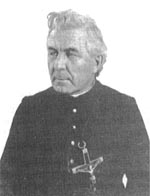 English